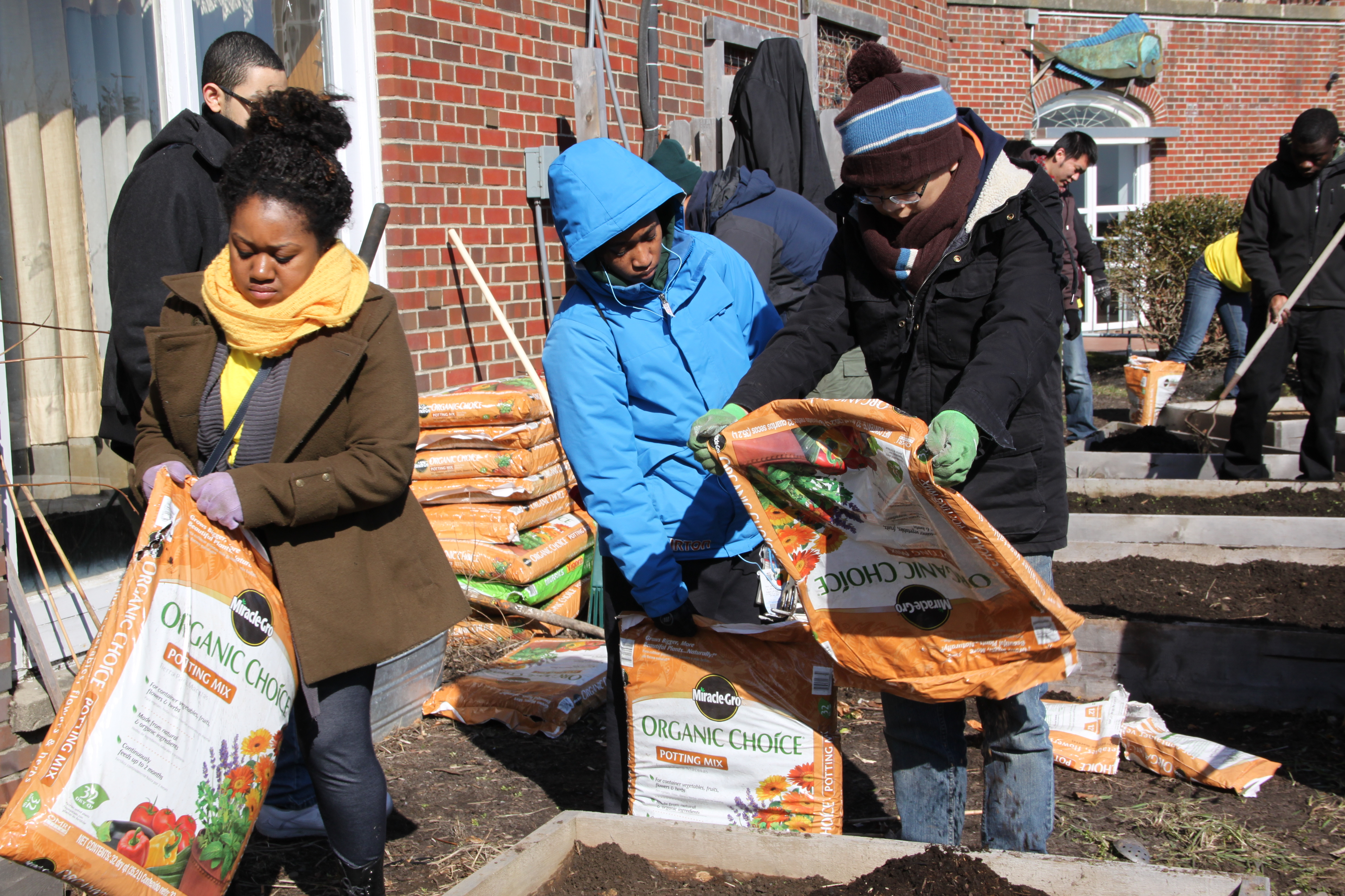 13-03-20 Alternative Spring Break - Asbury Park (Unedited) (52)